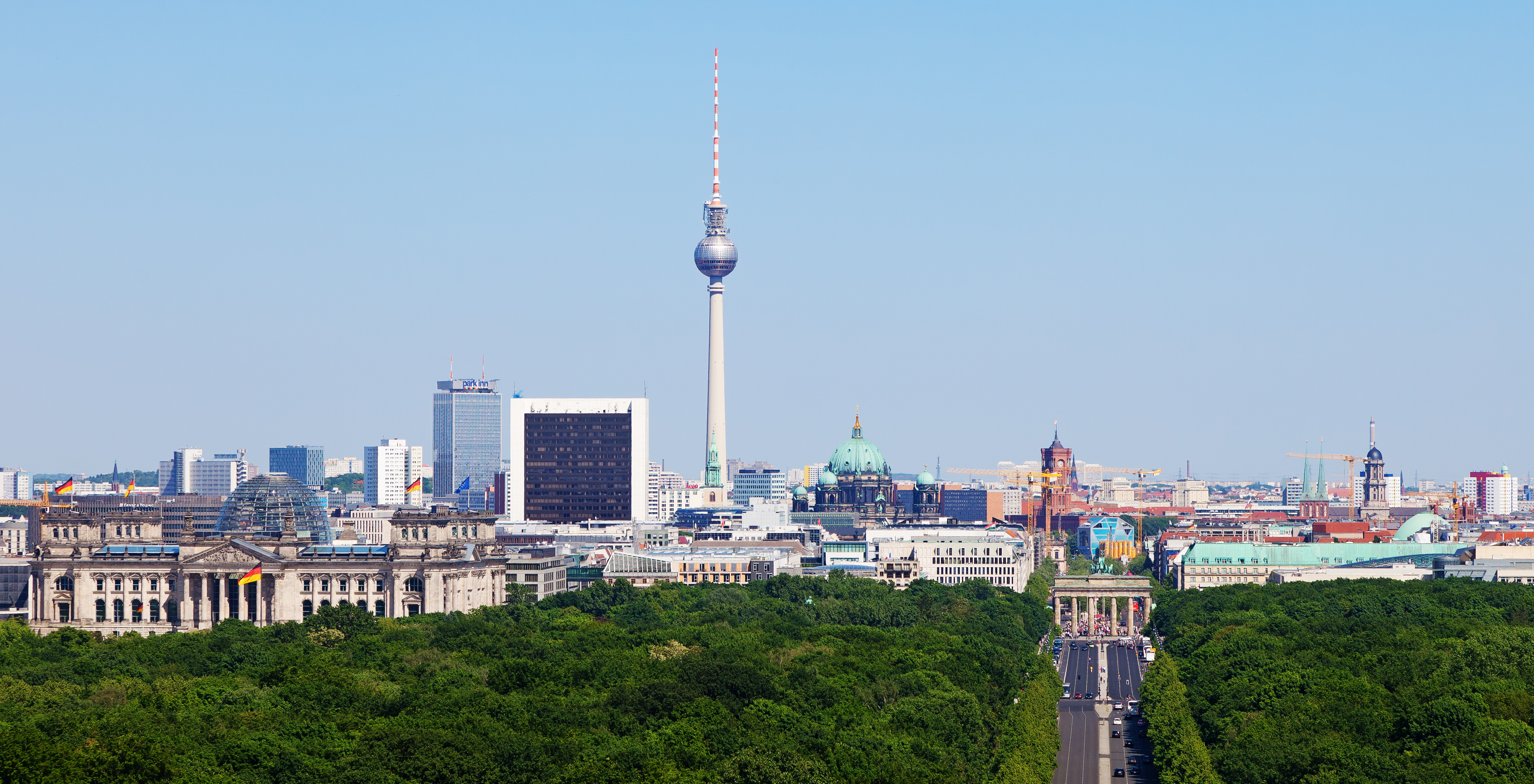 Berlin Cityscape seen from Victory Column